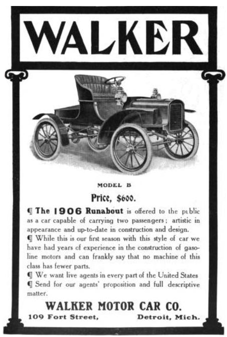 Walker Motor Car Company of Detroit, Michigan - 1906